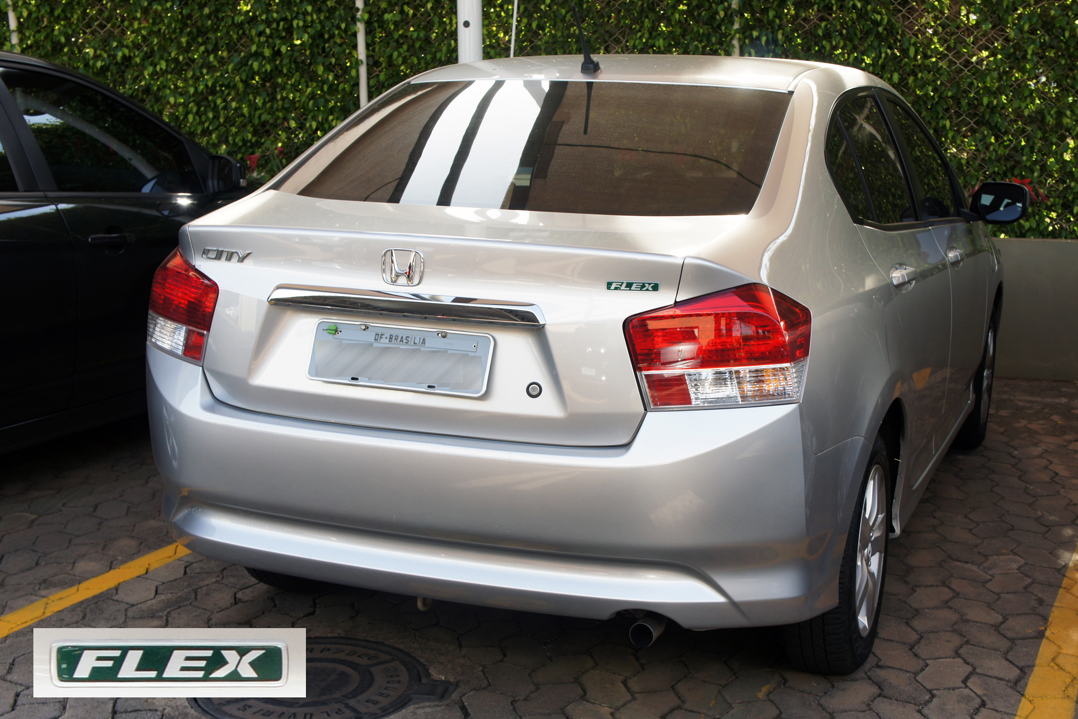 Brazilian Honda City flex-fuel. Brasilia, Brazil